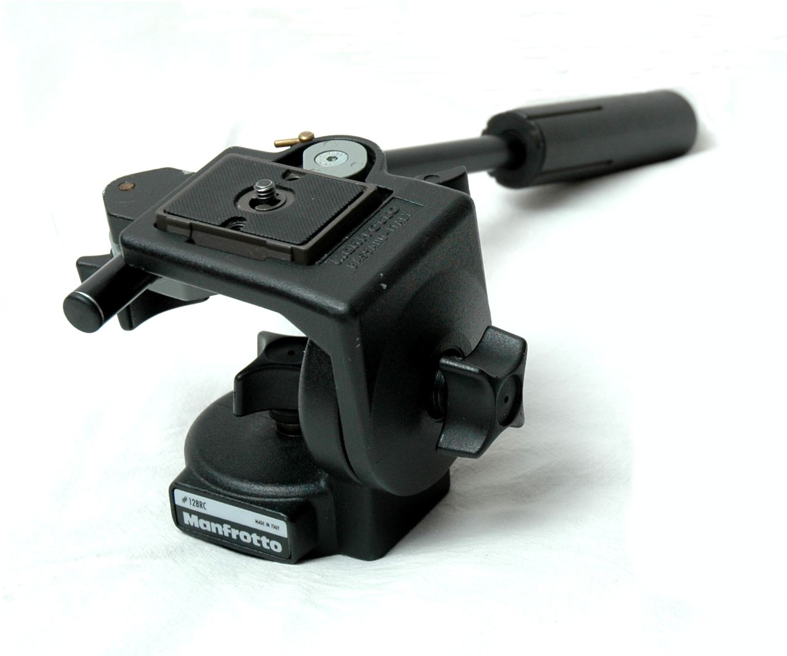 Crop of File:Tripod heads.jpg